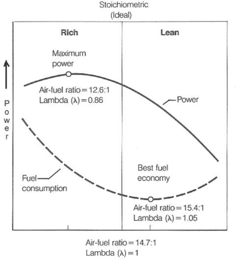 Ideal stoichiometry of a gas engine